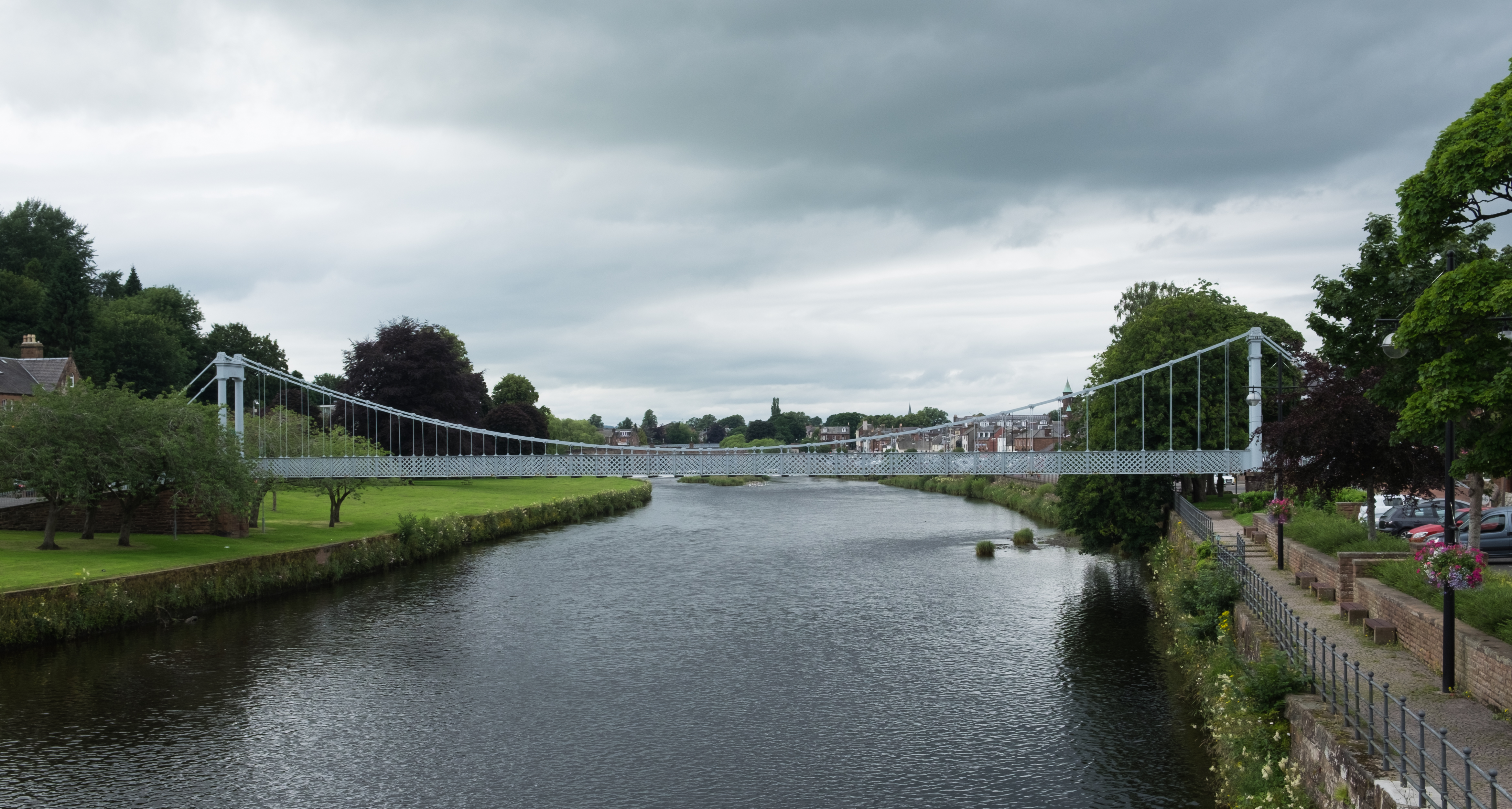 The suspension footbridge across the River Nith at Whitesands in Dumfries. This 1875 bridge is a category B listed building in Scotland.